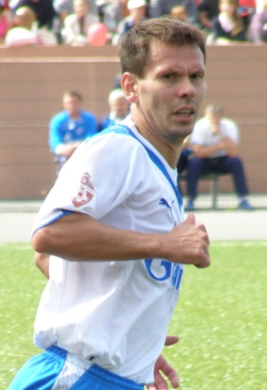 Konstantin Zyryanov in action for FC Zenit St. Petersburg